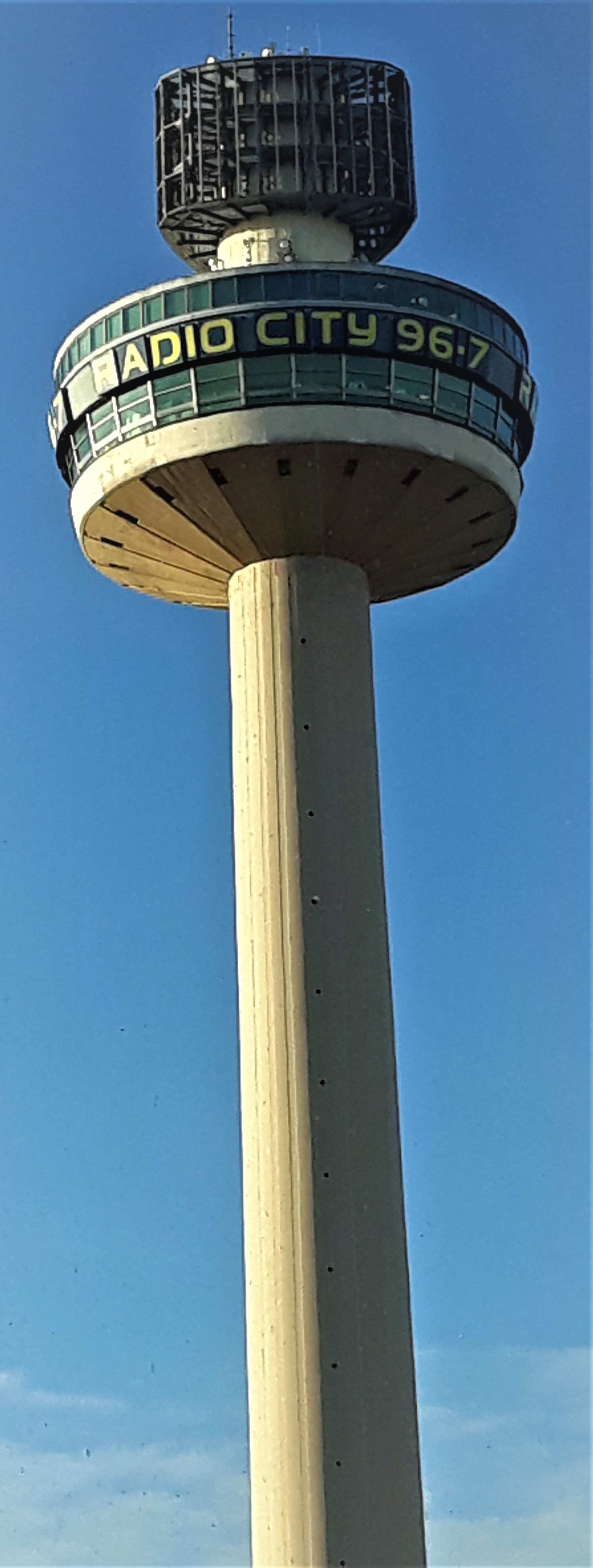 Radio City Tower 2017